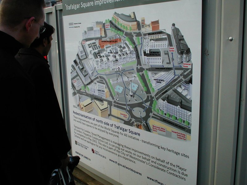 Members of the public read plans for modification in Trafalgar Square, 14th February 2003. Photographer: James Gibbon